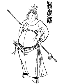 Ngày tạo ra: 1892 (光緒壬辰)